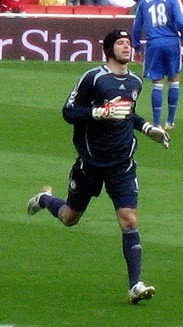 Petr Čech alongside Essien, my two favourite Chelsea players!